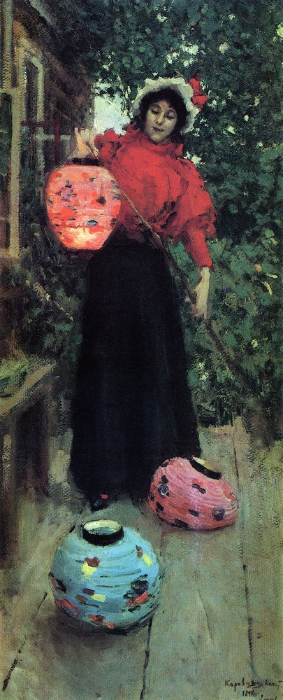 Paper Lanterns. 1898. Oil on canvas. The Tretyakov Gallery, Moscow, Russia